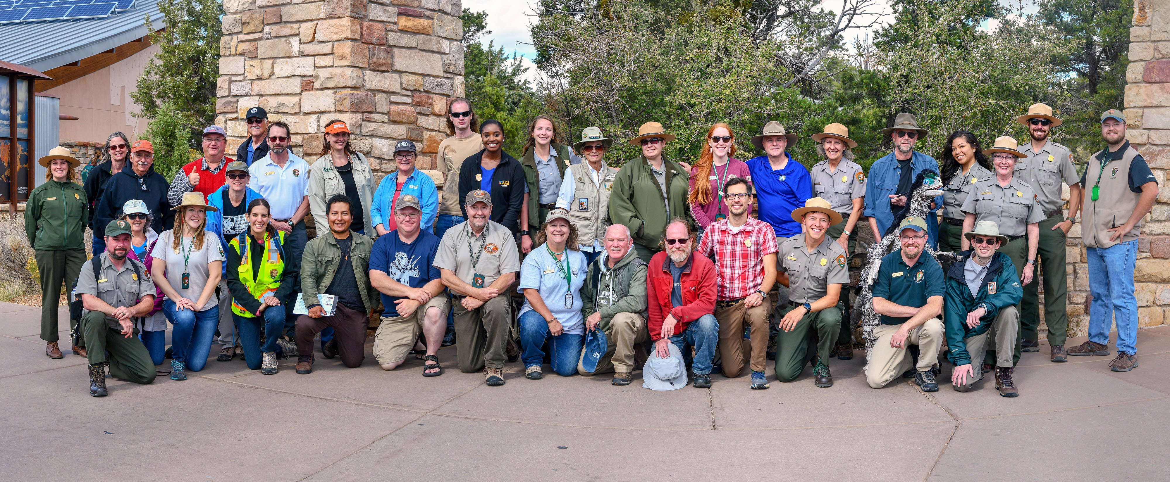 National Park Service paleontologist and educators who presented the 10th Annual National Fossil Day activities and programs on the South Rim of Grand Canyon National Park on September 28, 2019.. Front Row, L to R: Jeremy Childs, Jennifer Glennon., Anne Miller, Hazel Wolfe, Celia Dubin, Kevin Garcia, John-Paul Hodnett, Vincent Santucci, Mary Carpenter, Jim Mead, Joel Despain, Adam Blankenbicker, Chris Symons, Jason Kenworthy, Justin Tweet Back Row, L to R: Grace Lilly, Janet Gillette, David Gillette, Tom Olson, Richard McMichael, Don Weeks, Anne Scott, Eleanour Snow, Andy Grass, Sequoyah McGee, Robyn Henderek, Sandy Croteau, Erin Eichenberg, Diana Boudreau, Sherman Mohler, Mary Ontiveros, Doug Wolfe, Maria Rodriguez, Veronica Colvin, Joel Kane, Brian Maul. Alt: a group of 36 people in 2 rows are posing for a group photo in front of two pillars made of rough hewn stone blocks. Location: Grand Canyon National Park Visitor Center (South Rim) NPS Photo/Michael Quinn.